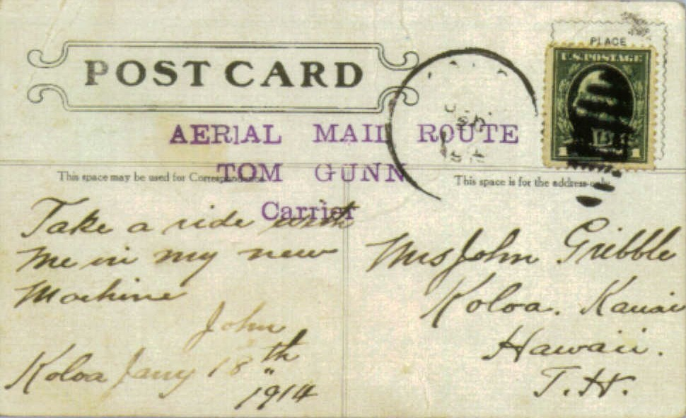 United States postcard used for airmail arranged during Flying Exhibition Koloa HI. It is franked with a United States postage stamp issued before 1914. Aviator Tom Gunn made several short flights as part of the Flying Exhibition Koloa HI. At the request of John Gribble (Hawaiian Philatelist) Gunn carried mail on one of these flights. After its aerial ascent the mail was taken to the post office a few days later for processing.